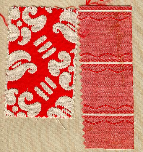 i use these for stitch inspiration